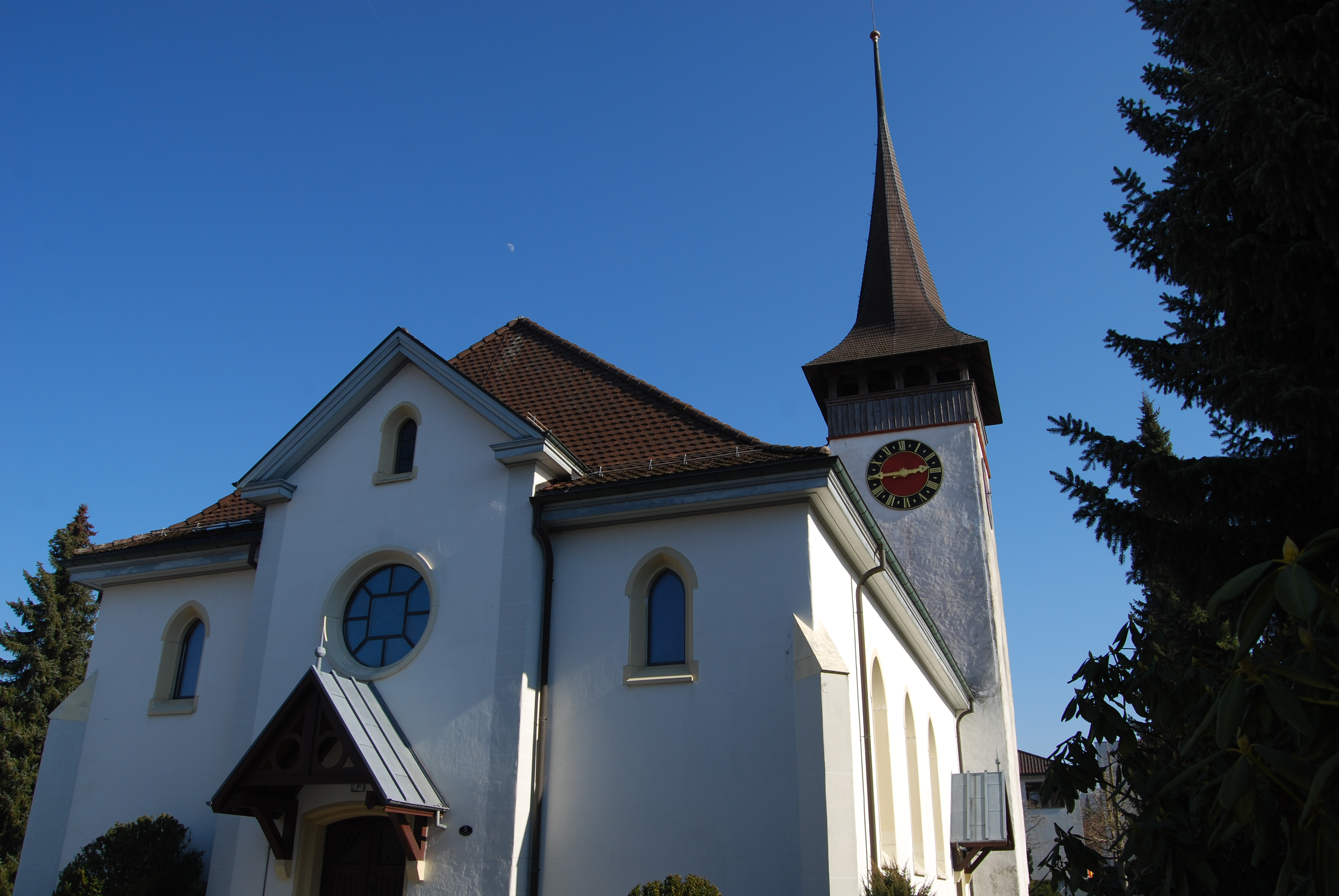 Protestant Church of Eriswil, canton of Bern, Switzerland